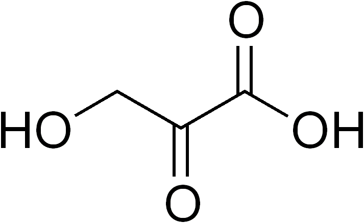 chemical structure of hydroxypyruvic acid